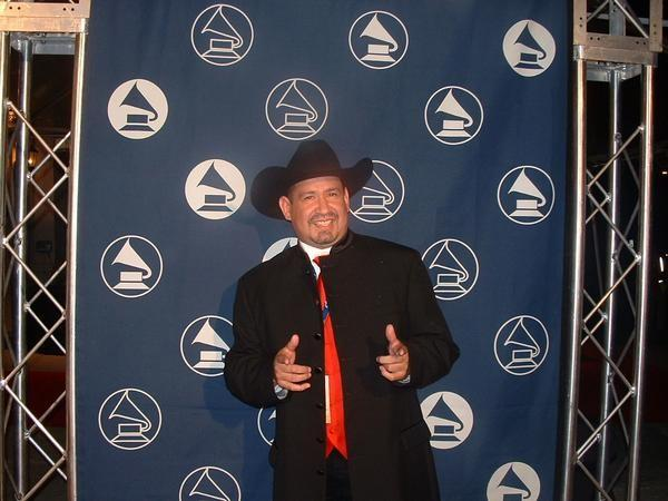 Jonny Martinez